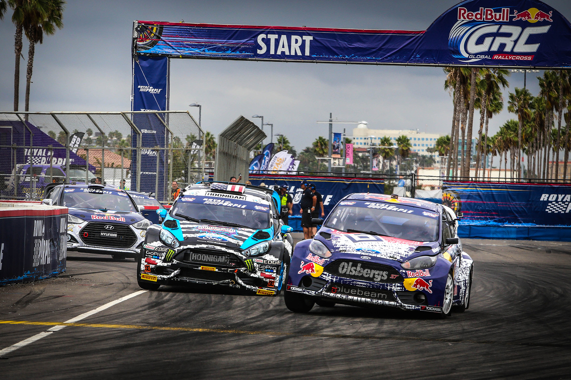 Joni Wiman leads Ken Block and Rhys Millen at Round 7 of the 2014 Global RallyCross Championship at the Port of Los Angeles, California.